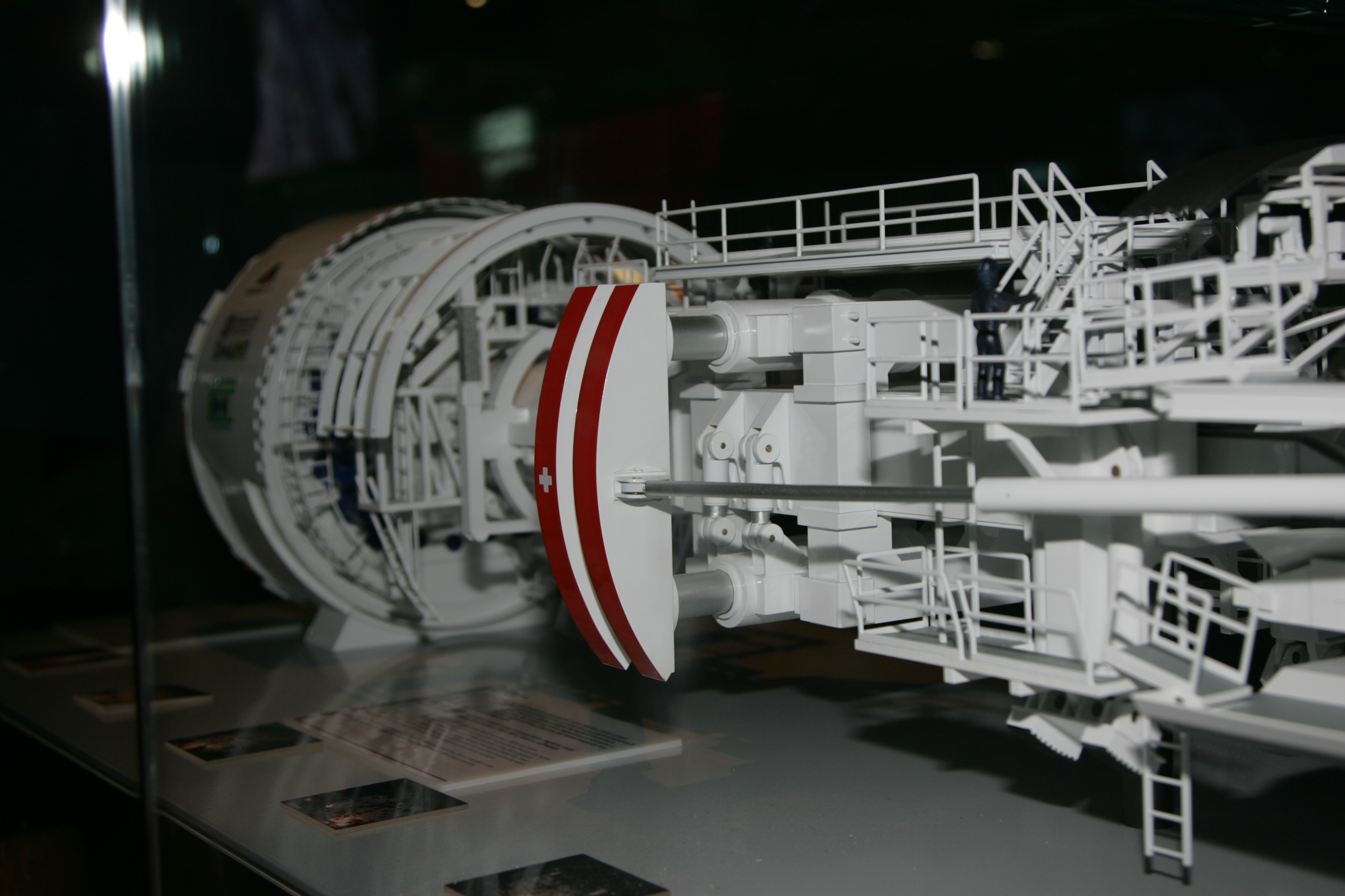 Model of a tunnel boring machine. On display at Gotthard Base Tunnel exhibition.